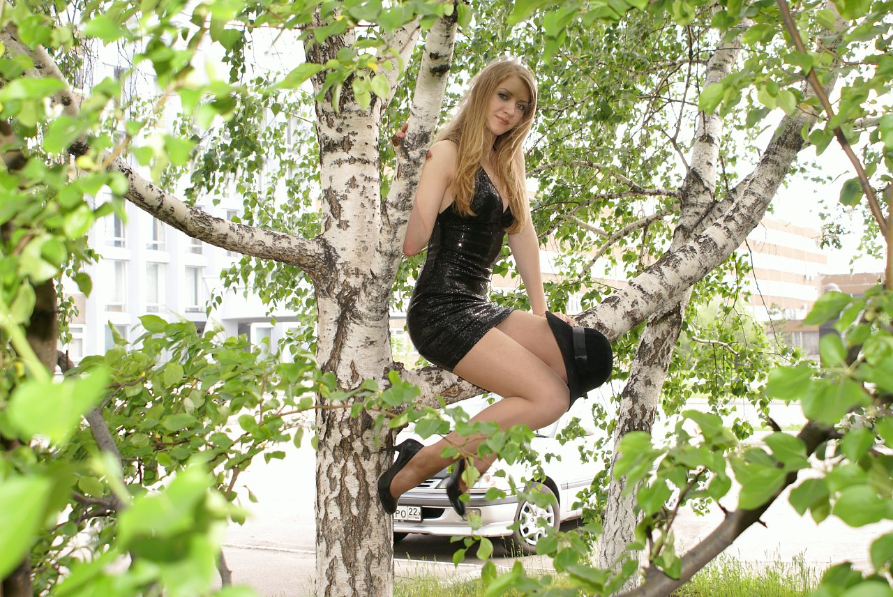 Russian girl Elena Lyadova is on tree